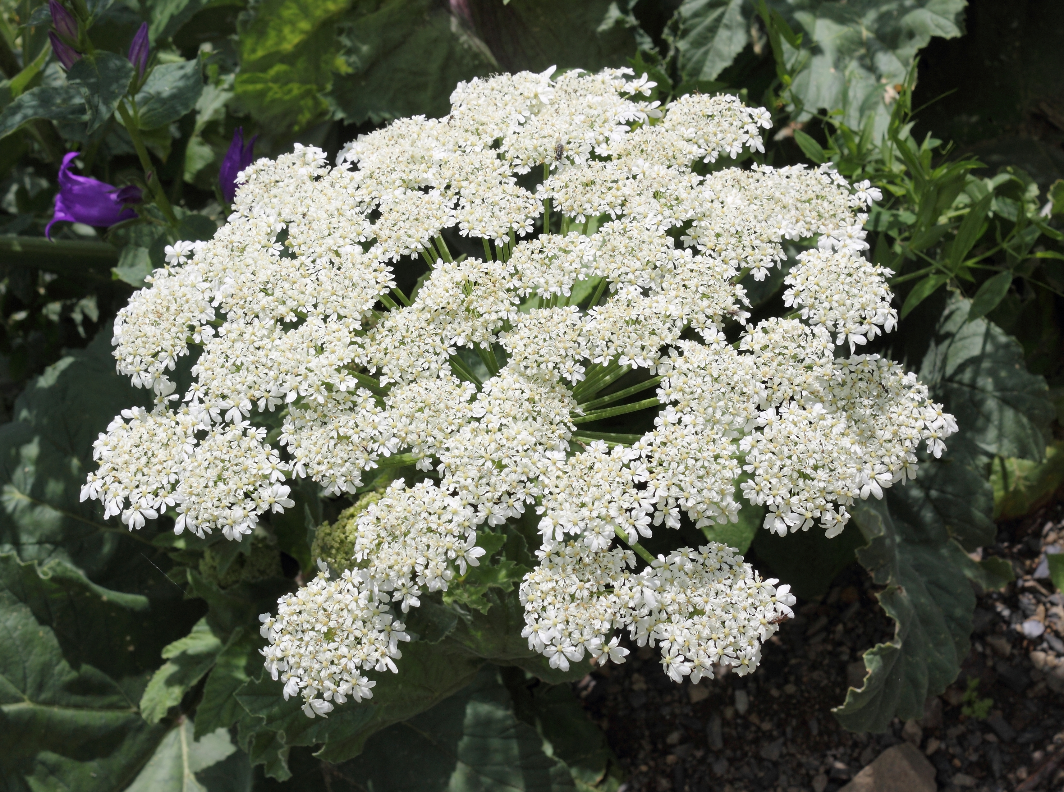 Heracleum sosnowskyi, inflorescences. Wild-growing plant. The picture taken on border of the Caucasian State Biosphere Nature Reserve and the Sochi national park in vicinities of Krasnaya Polyana in the territory of Adlersky District of Sochi. Krasnodar Krai, Russian Federation.